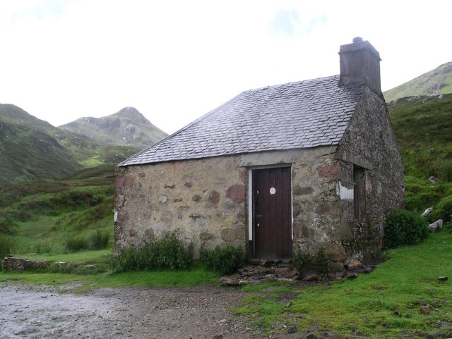 Lairig Leachach bothy, Scotland.